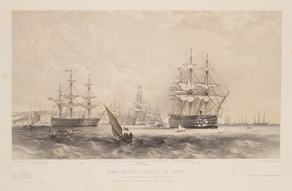 Title: H.M.S. Royal Albert 131 Guns. Creator: Brierly, Oswald Walters, Sir, 1817-1894 (delineator); Dutton, T. G. (Thomas Goldsworthy), 1819-1891 (lithographer) Date: February 25, 1856 Part of: beautiful scenery and chief places of interest throughout the Crimea from paintings/ Series: Marine & Coast Sketches of the Black Sea/ Place: Sevastopol, Crimea; Black Sea Description: Full title with caption: H.M.S. Royal Albert 131 Guns. Flag Ship of Admiral Sir Edm Lyons, Bart. With the English and French Fleets off Sebastopol. Physical Description: 1 print: lithograph, color, part of 1 volume (65 prints); 26 x 39 cm on 40 x 56 cm File: February 25, 1856 Rights: Please cite DeGolyer Library, Southern Methodist University when using this file. A high-resolution version of this file may be obtained for a fee. For details see the web page. For other information, . For more information and to view the image in high resolution, View the